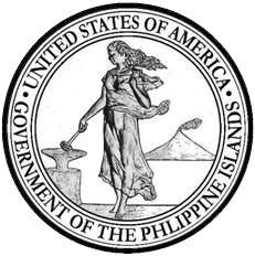 Seal of US Department of the Philippine Islands. Designed by Filipino engraver, Melecio Figueroa (1842-1903) for the U.S. government.